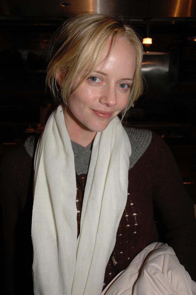 Marley Shelton